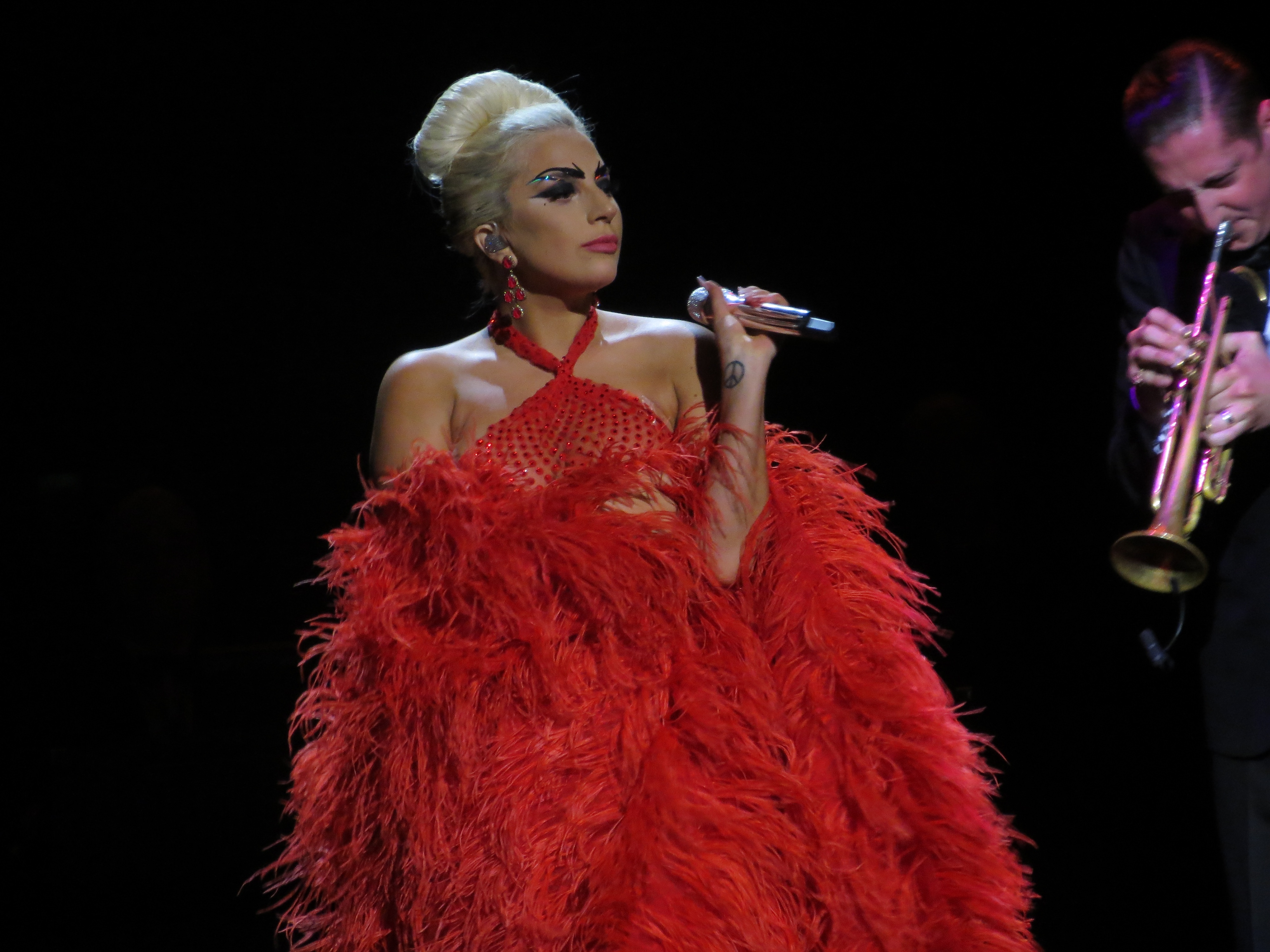 Tony Bennett & Lady GaGa, Cheek to Cheek Tour, London Royal Albert Hall, 8 June 2015.